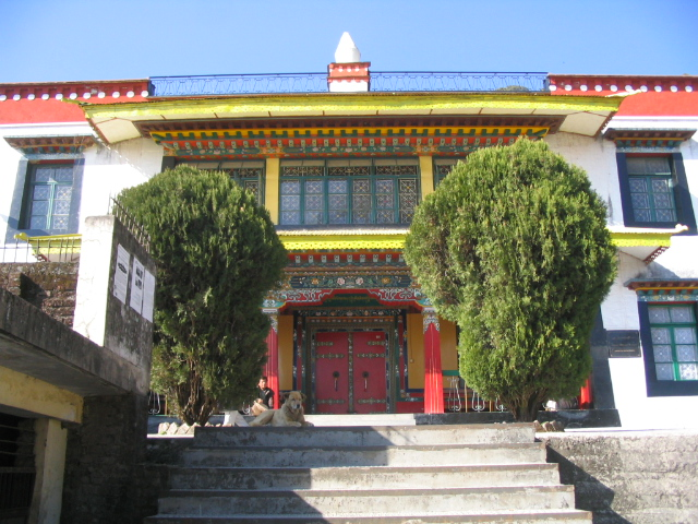 Library of Tibetan Works and Archives, Dharamsala